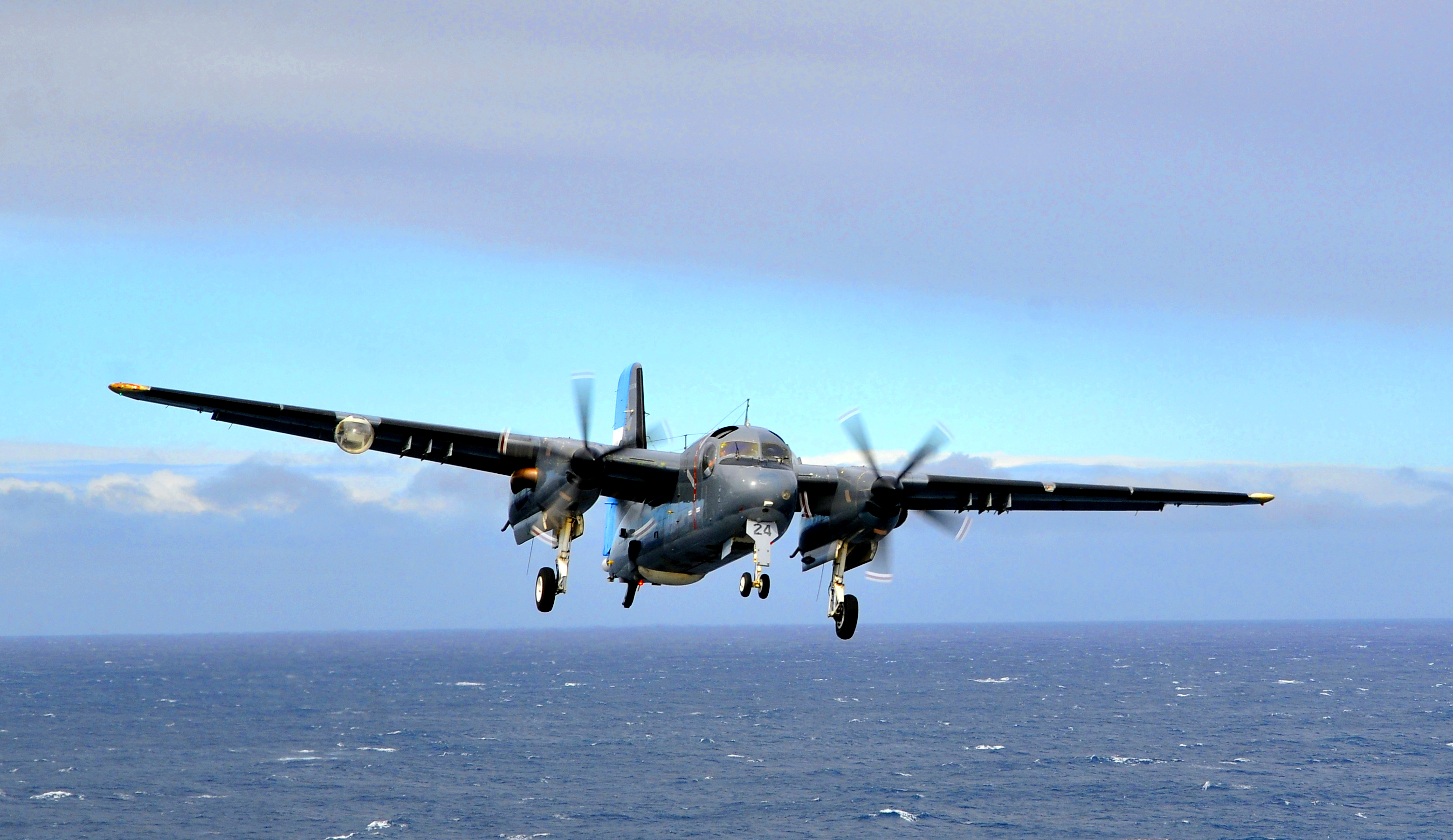 100310-N-0347B-264 ATLANTIC OCEAN (March 10, 2010) As seen from the Nimitz-class aircraft carrier USS Carl Vinson (CVN 70), an Argentina navy S-2 Tracker performs a low approach exercise. during exercise Southern Seas 2010.